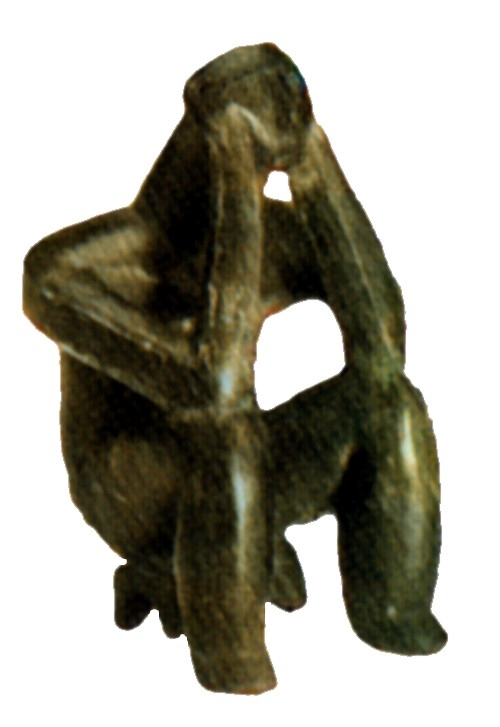 The Thinker of Hamangia, Neolithic Hamangia culture (c. 5250-4550 BC).